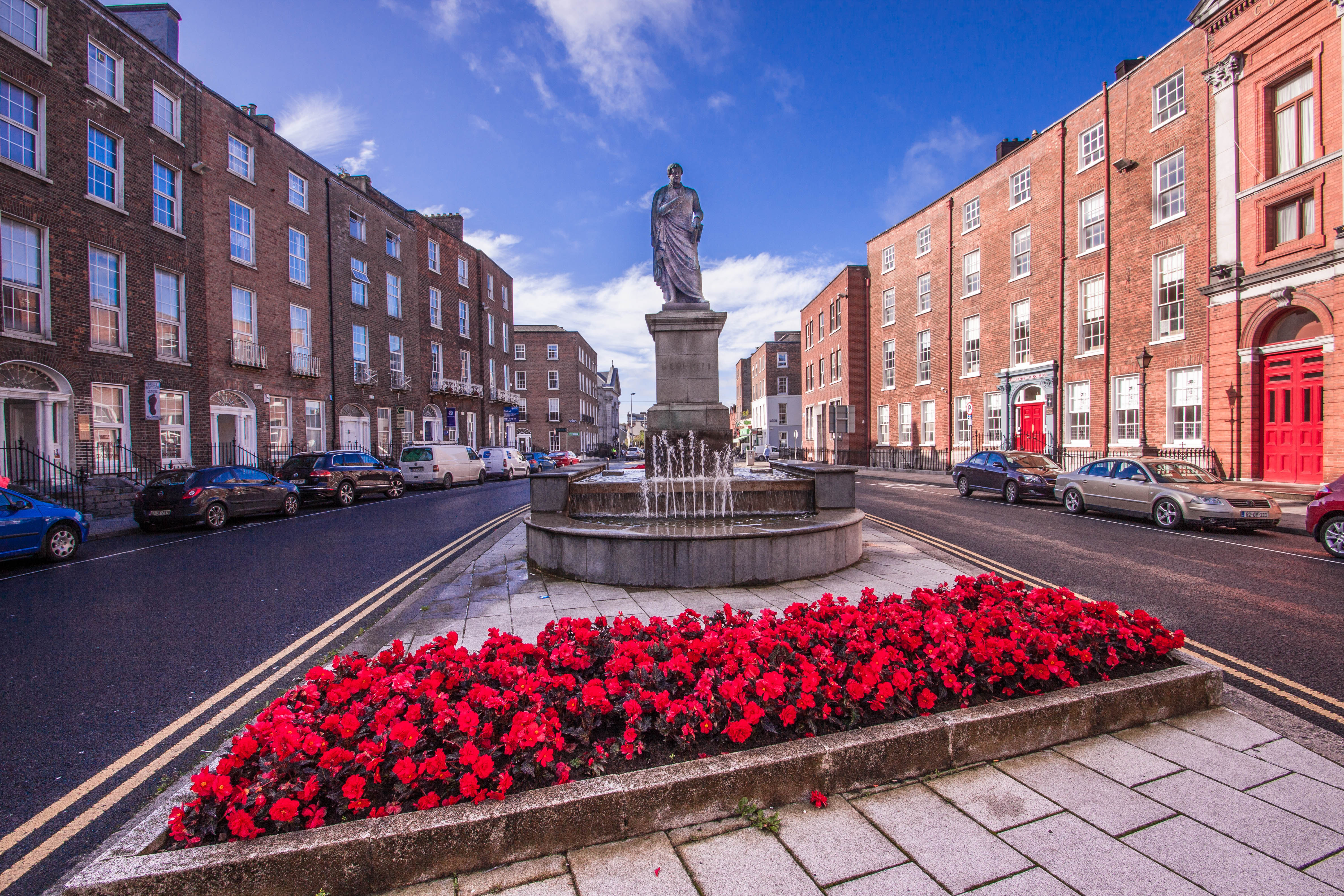 OConnell Monument-Limerick City